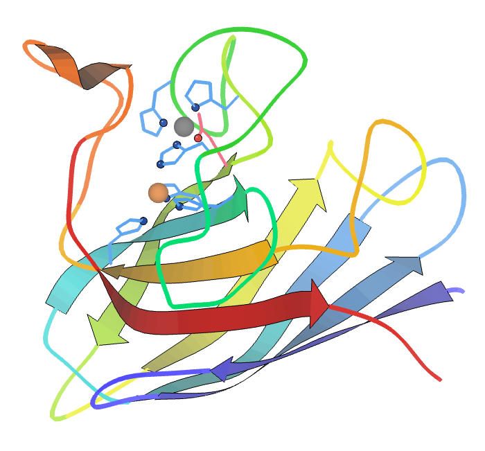 Ribbon schematic with active-site ligand side chains, for human Cu,Zn superoxide dismutase (SOD1). Made in KiNG from PDB 2C9V.